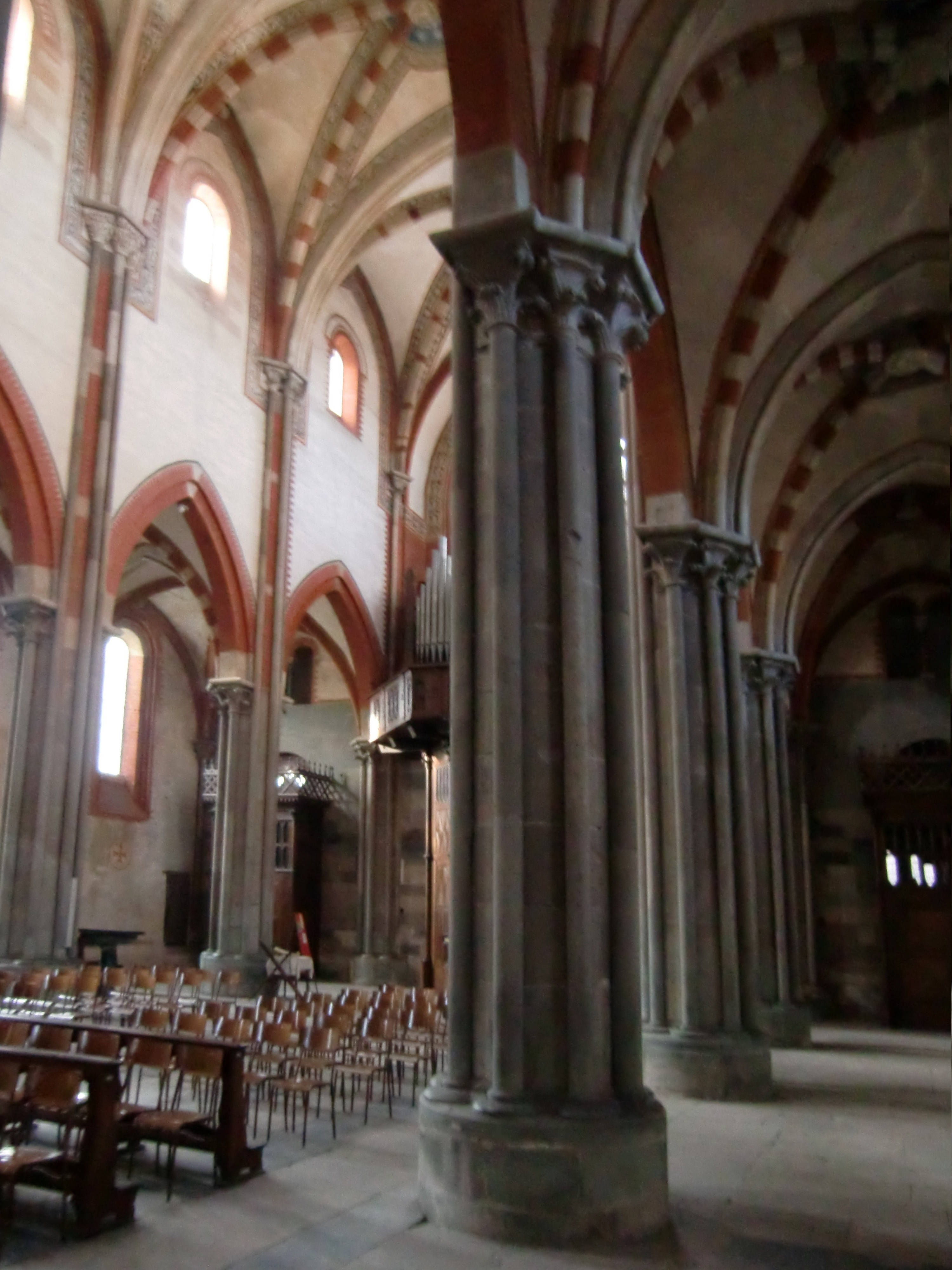 Vercelli, Cathedral of Sant'Andrea, 1219-27, the pillars inside the cathedral